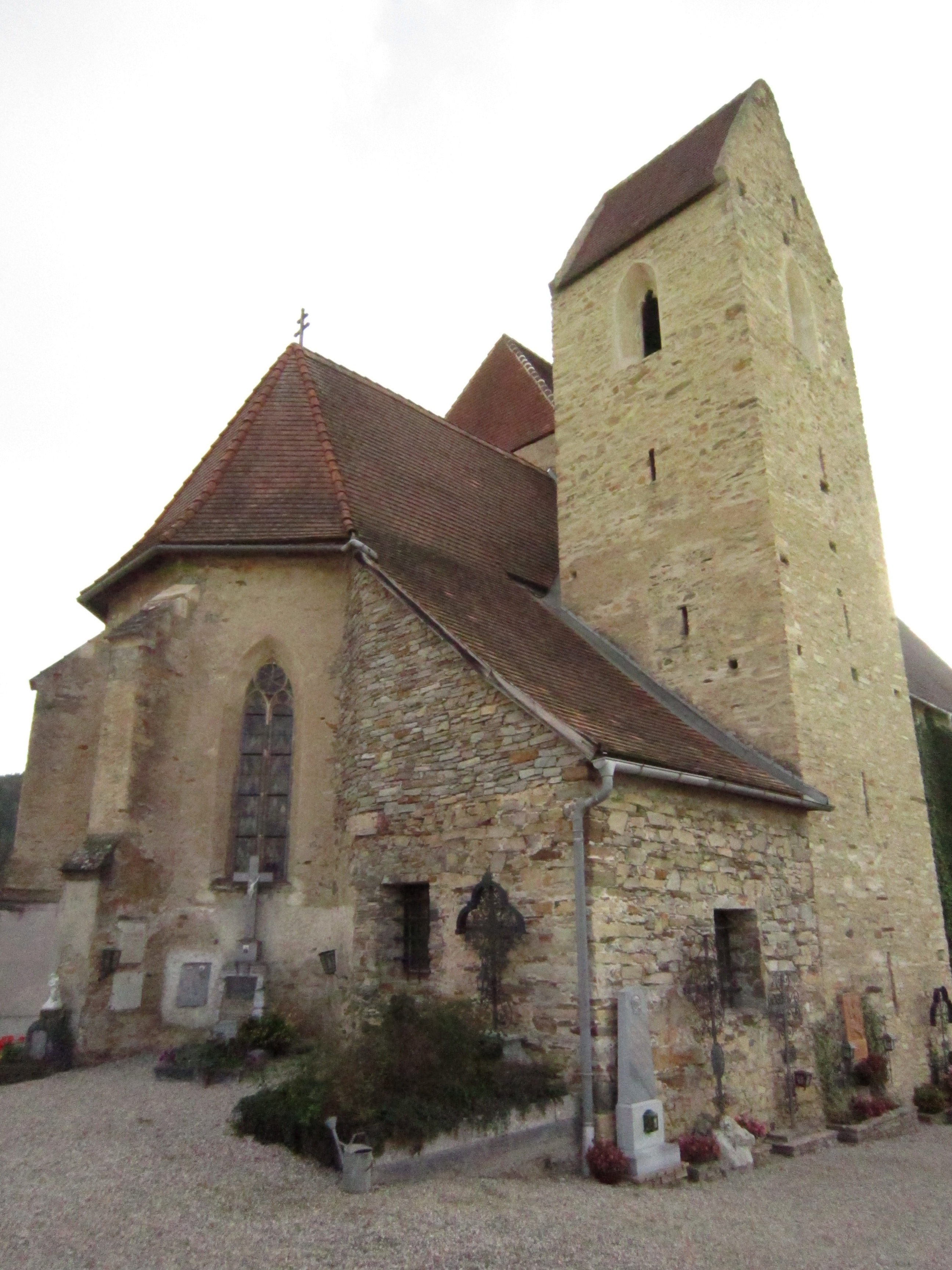 Branch Church of St. Anna im Felde at Pöggstall, District Melk, Lower Austria